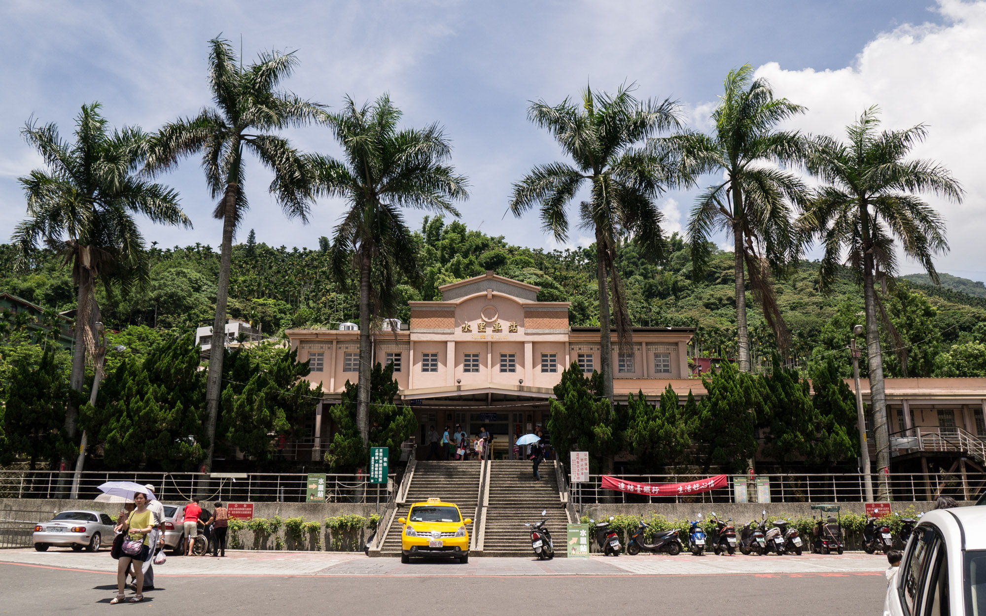 Steps leading to the entrance of Shuili Station.